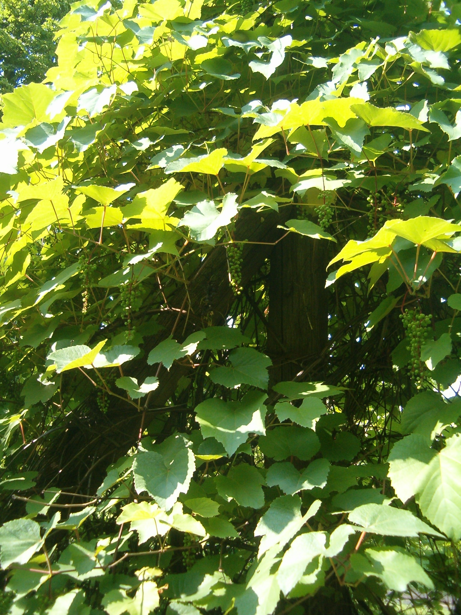 At Botanical Gardens Berlin-Dahlem Species Vitis aestivalis